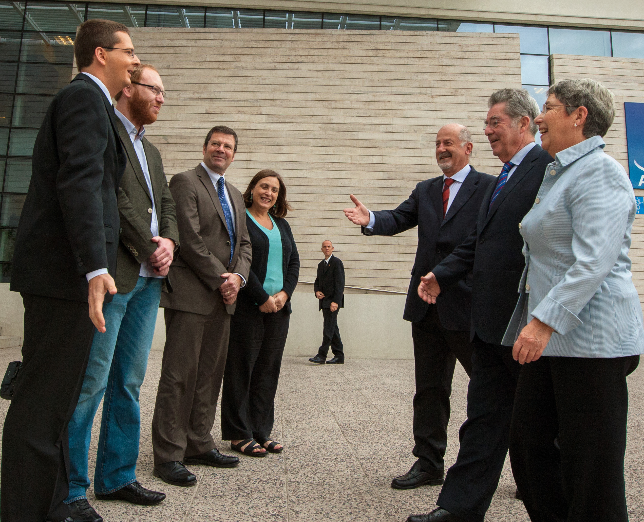 On 6 December 2012 the Federal President of the Republic of Austria, Dr Heinz Fischer and his wife Margit Fischer, visited ESO’s premises in Santiago, Chile. The President was accompanied by Dorothea Auer, Austrian Ambassador to Chile and Friedrich Faulhammer, Secretary General of the Austrian Ministry of Science and Research. They were joined by several other Austrian government officials as well as a scientific and cultural delegation. The picture shows, from left to right: Christoph Saulder (Austrian astronomer and PhD student at ESO); Paul Eigenthaler (Austrian astronomer at Universidad Católica de Chile); Jean Michel Bonneau (ESO); Maria Angelica Moya (ESO); Massimo Tarenghi (ESO Representative in Chile); President Dr. Heinz Fischer and his wife, Margit Fischer.